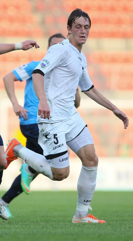 Ivan Knyazev playing for FC Torpedo Moscow.